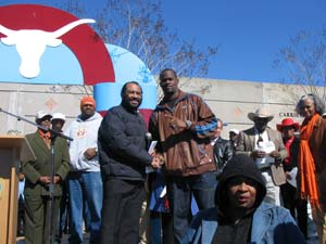 On February 11, 2006, Congressman Al Green joined state and local officials in recognizing and honoring native Houstonian Vince Young at a ceremony following the Parade of Heroes at Madison High School. The parade was sponsored by the City of Houston, Madison High School, Foley’s department store and the University of Texas. Congressman Green presented Young and his family with a Special Certificate of Congressional Recognition.